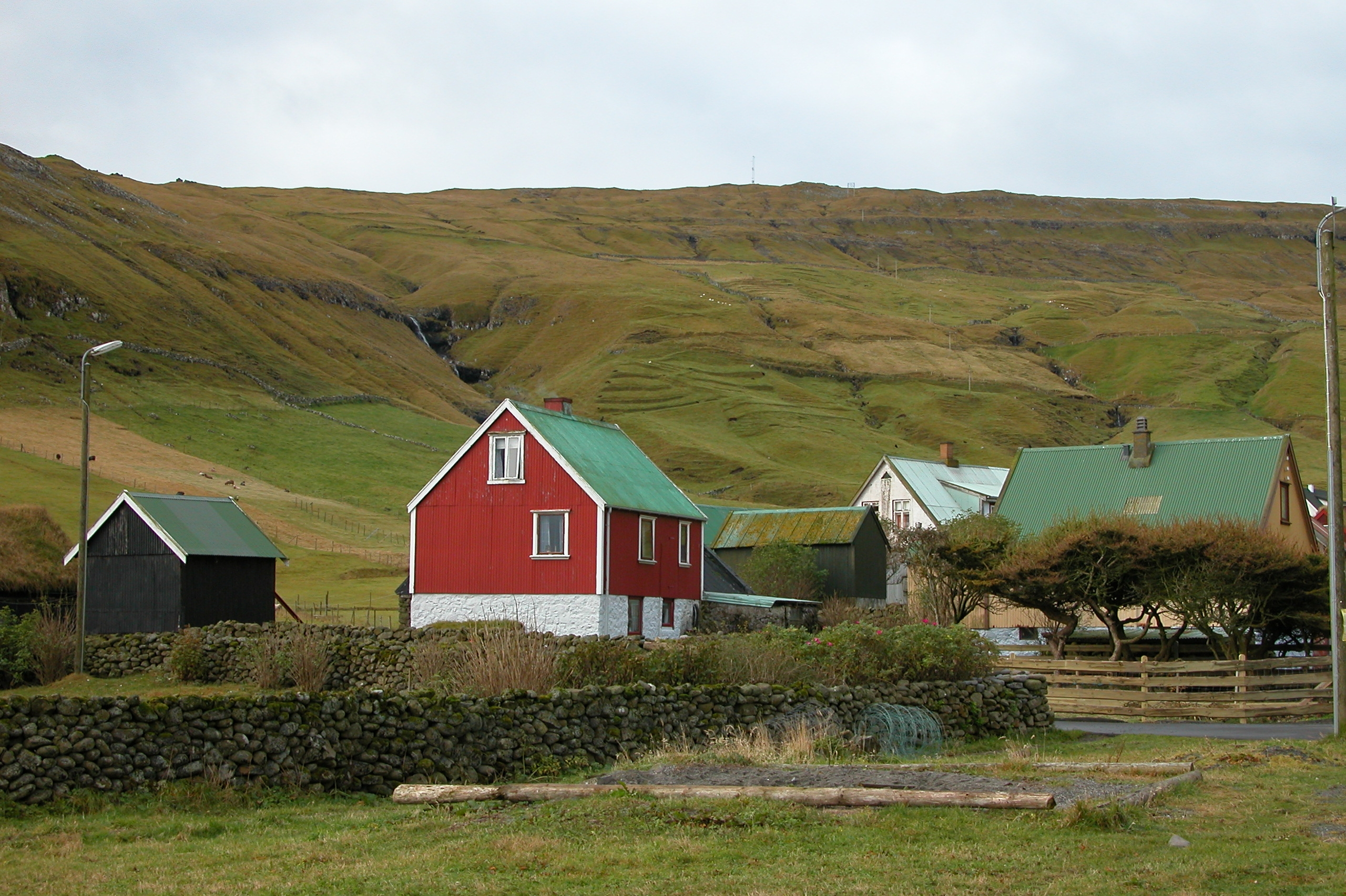 Dalur on Sandoy, Faroe Islands